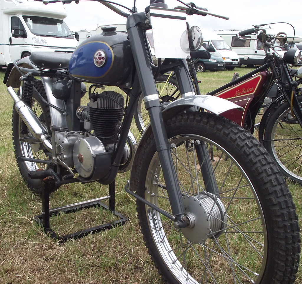 James Trials 1957 I think this is a James Cotswold K7C. 197cc. Made 1954 - 1958 The engine is a Villiers 7E. Capacity 197cc